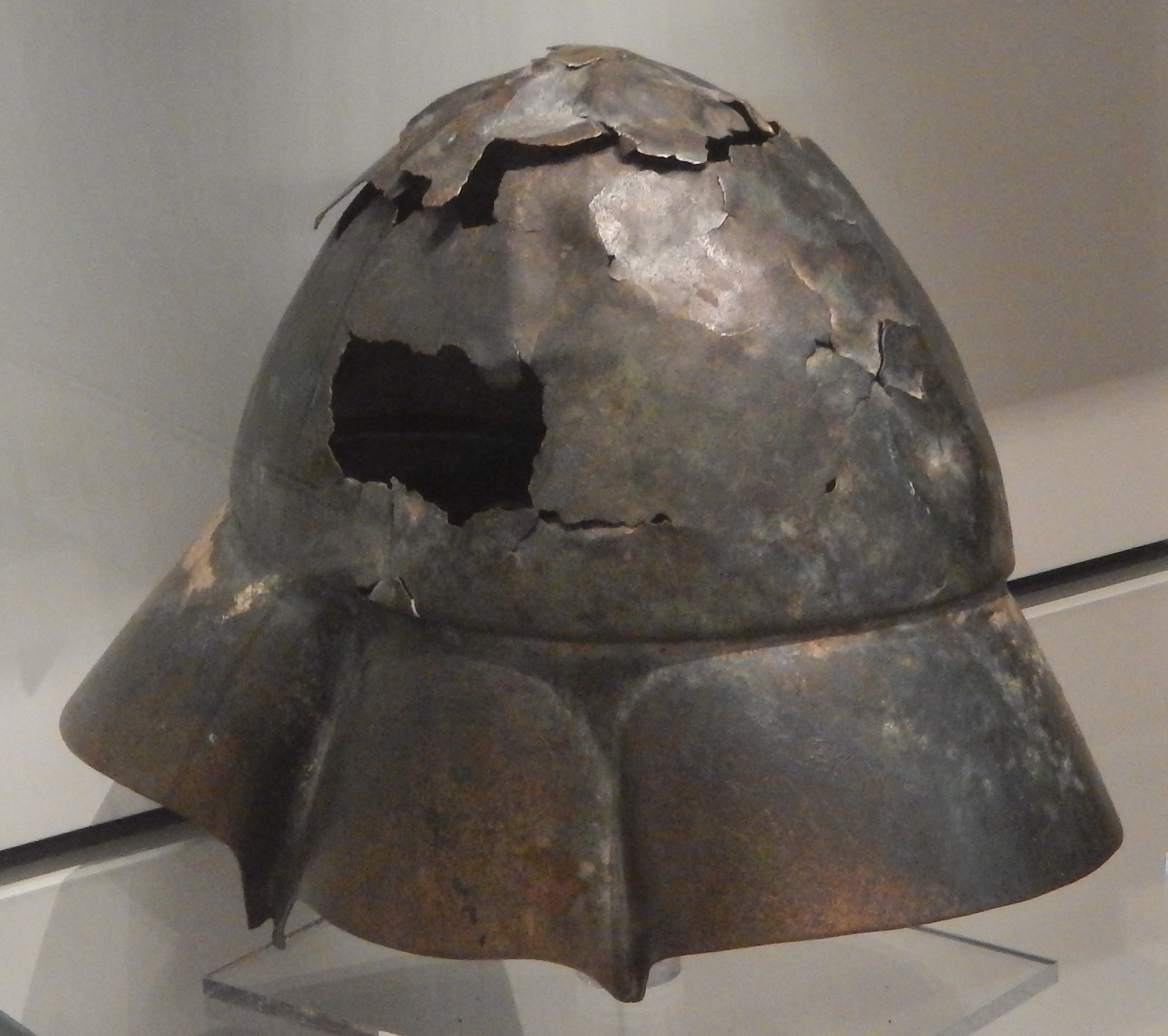 Boeotian bronze helmet found in the River Tigris in Iraq. Presumed to have been lost by one of Alexander the Great's cavalrymen on campaign in Mesopotamia. Ashmolean Museum, Oxford. AN1977.256.